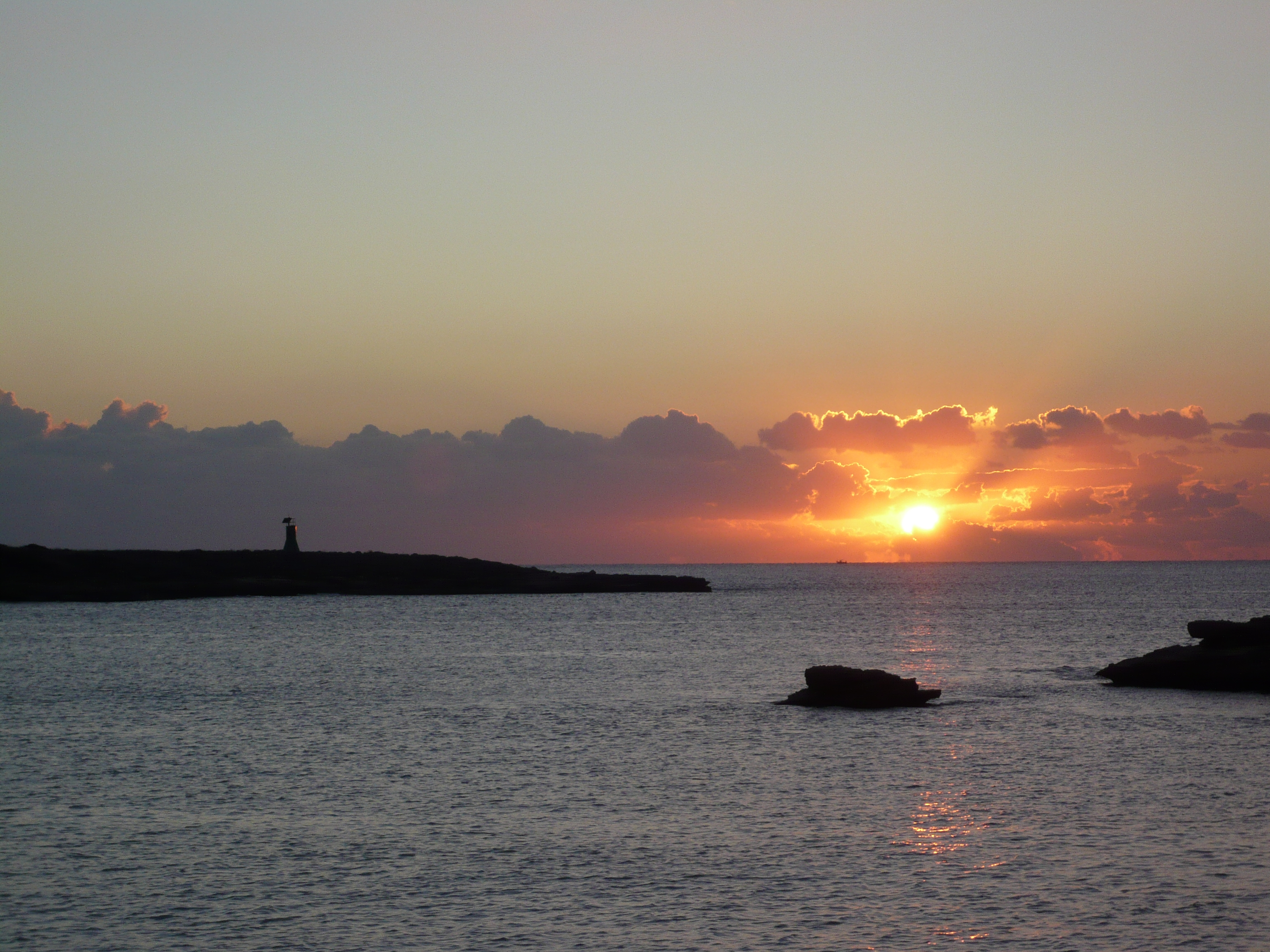 Ses Salines, Balearic Islands, Spain